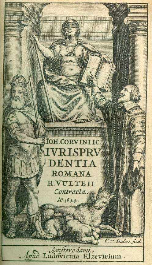 Title page of Justitia romana by Johannes Arnoldi Corvinus.